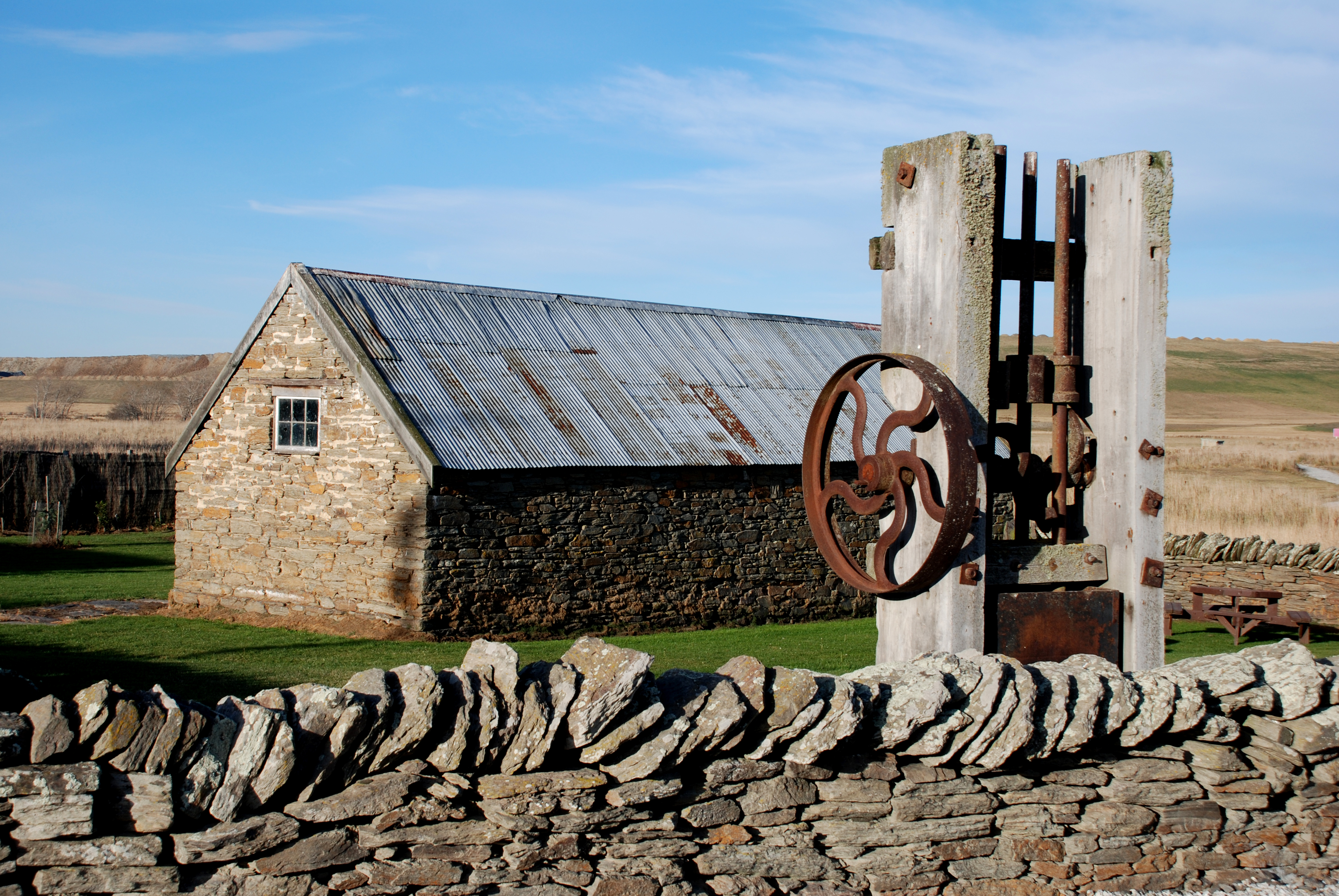 Macrae's Flat stamping battery, Otago, New Zealand, May 2007